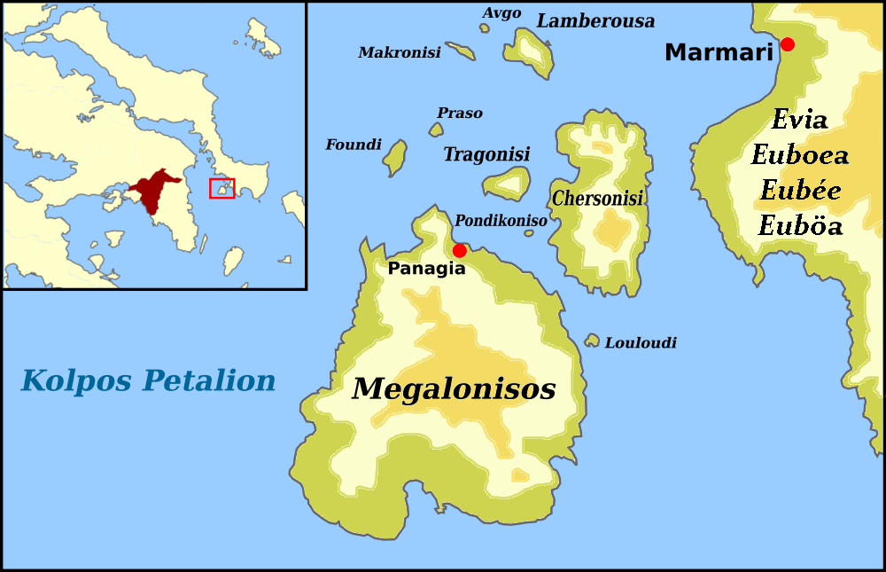 Position of Petalii Islands, Evvia, Greece